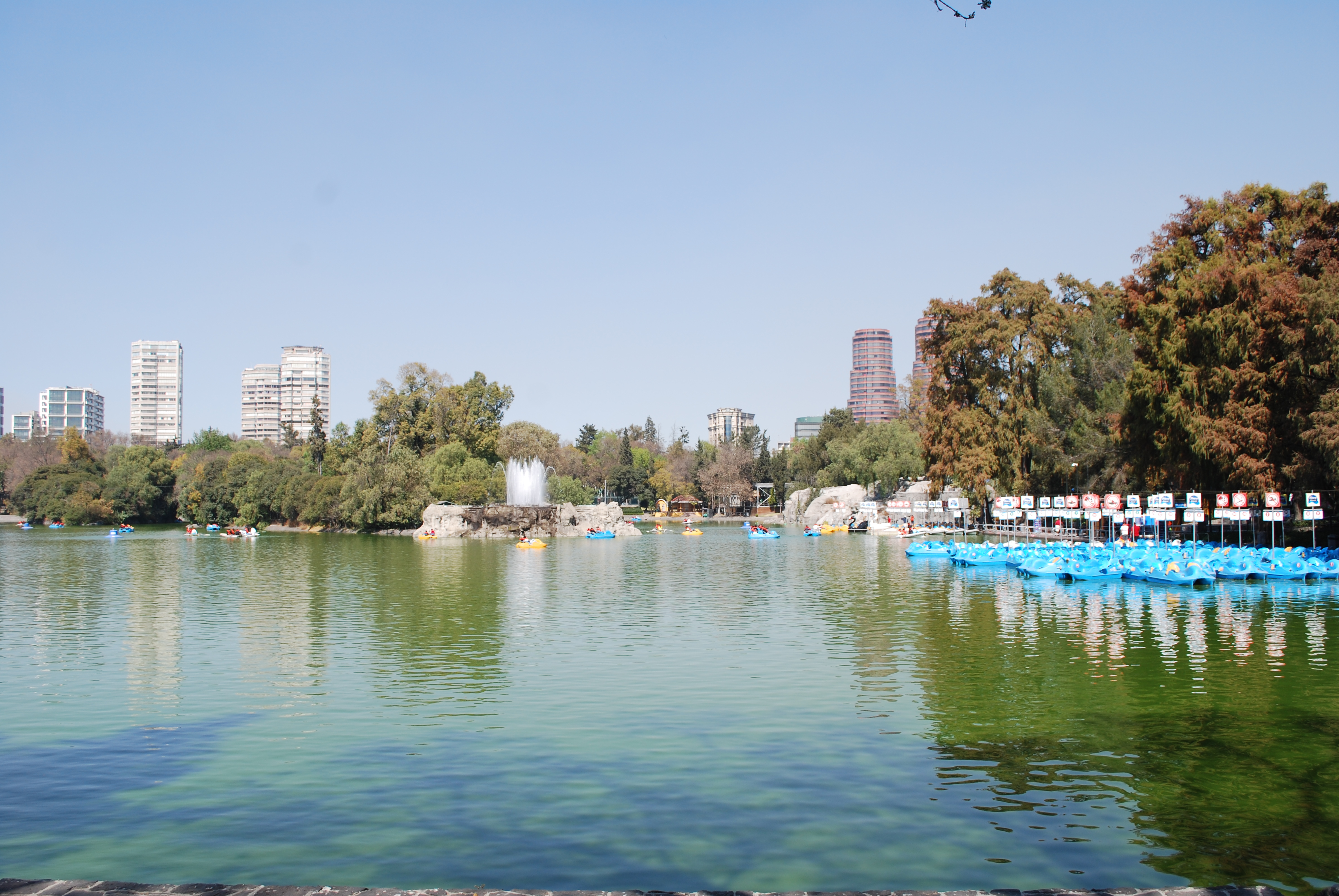 View of the Lago Menor at Chapultepec Park in Mexico City